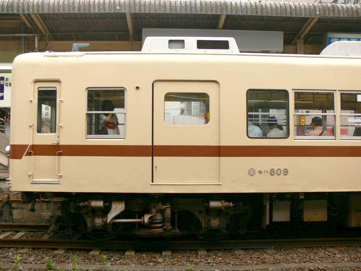 Shin-Keise Electric Railway Type 800 EMU(Japan).